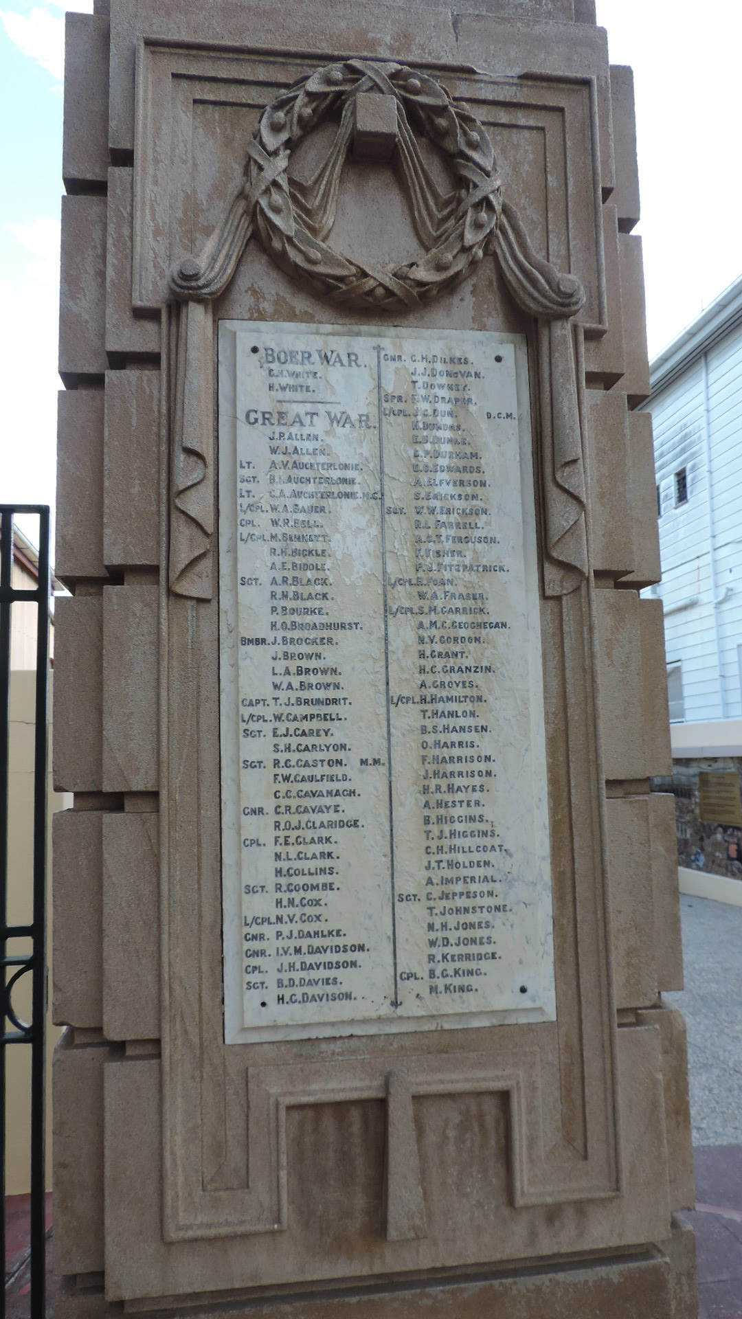 Names of the fallen in the Boer War and World War I (left-hand side), Gympie and Widgee War Memorial Gates, 2015